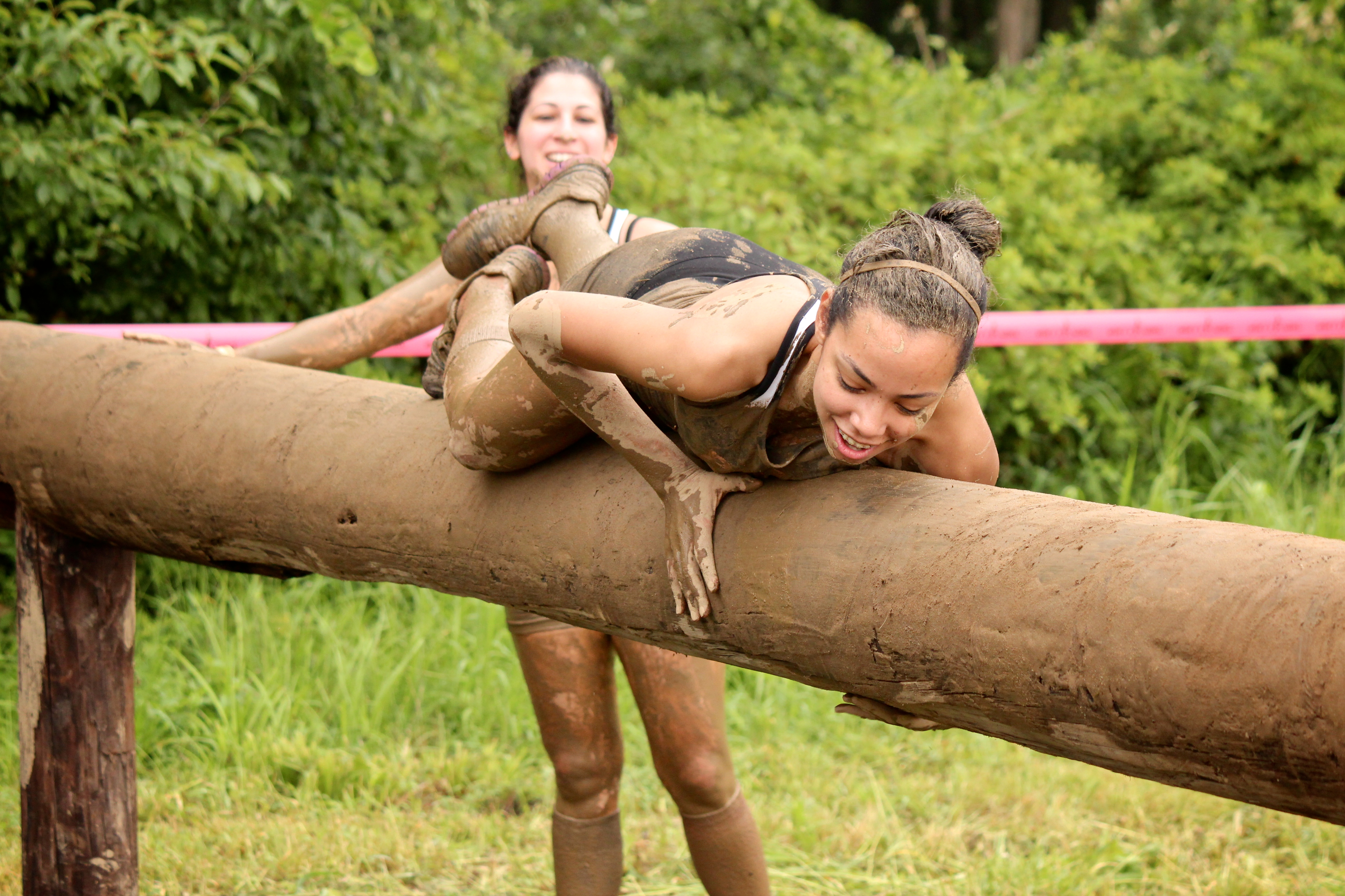 Dirty Girl Mud Run 2013 in Englishtown, New Jersey